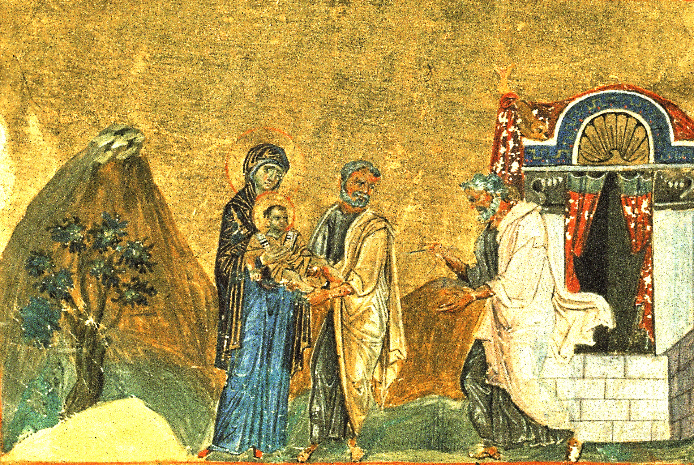 Circumcision of Christ. Menologion of Basil II. f.287